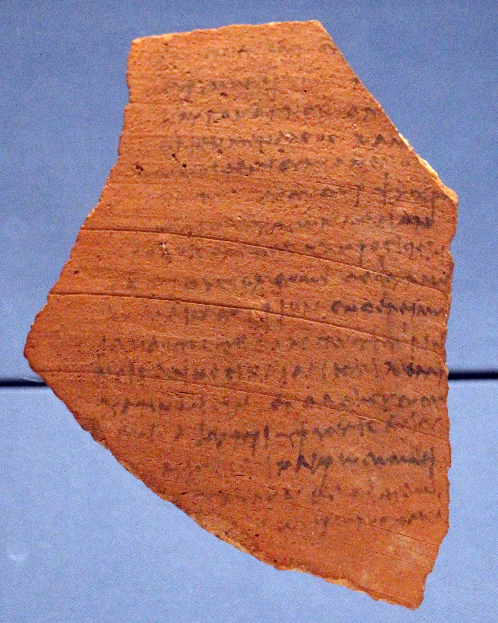 PSI XIII 1300: 3rd–2nd century BC ostrakon from Egypt, preserving four stanzas of Sappho fr. 2 (Voigt). Now in the collection of the Laurentian Library, Florence.